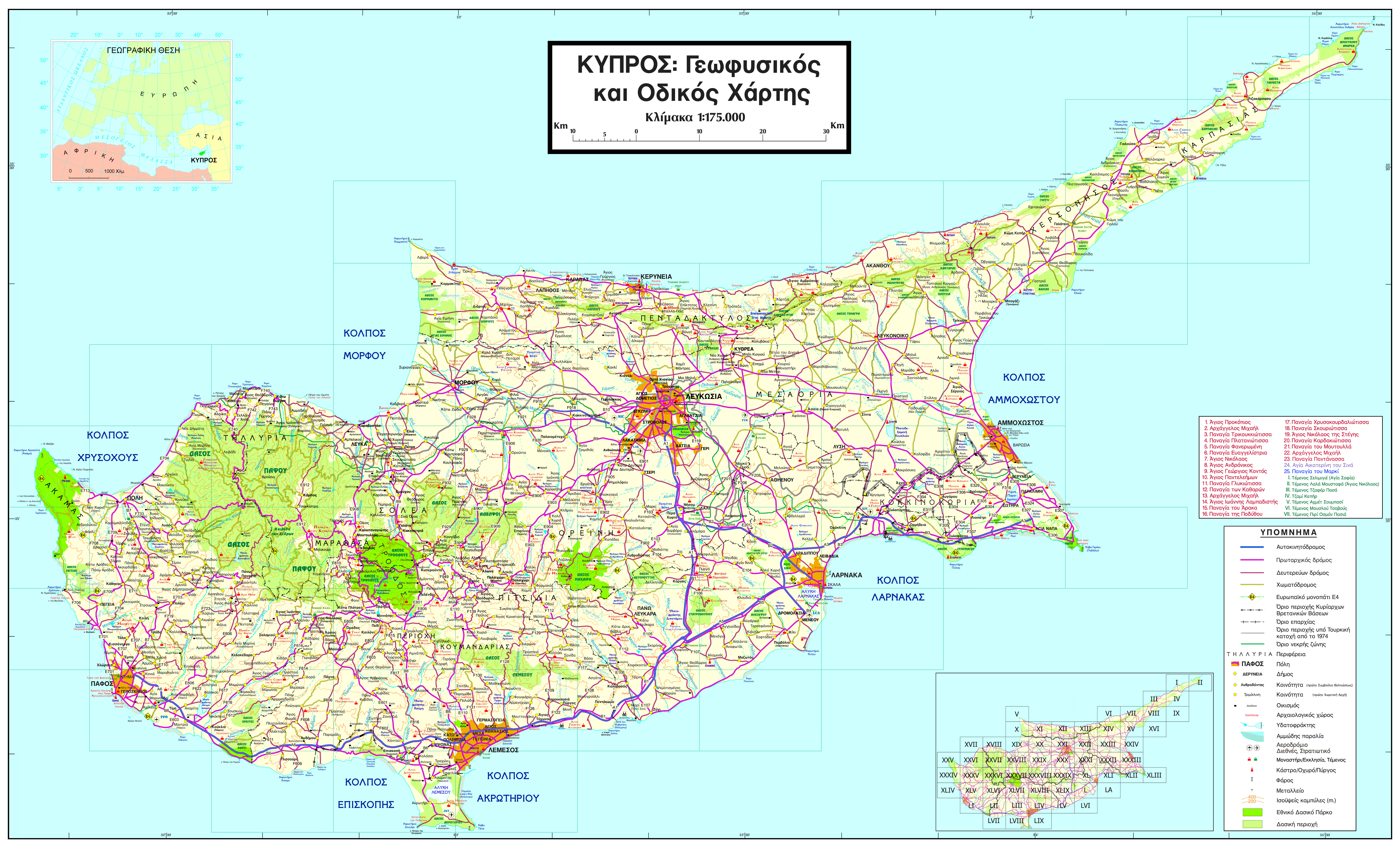 Complete map of Cyprus in Greek